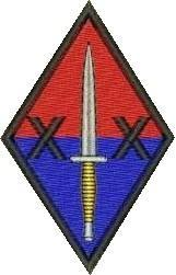 The crest of 20 Battery Royal Artillery 2007 onwards